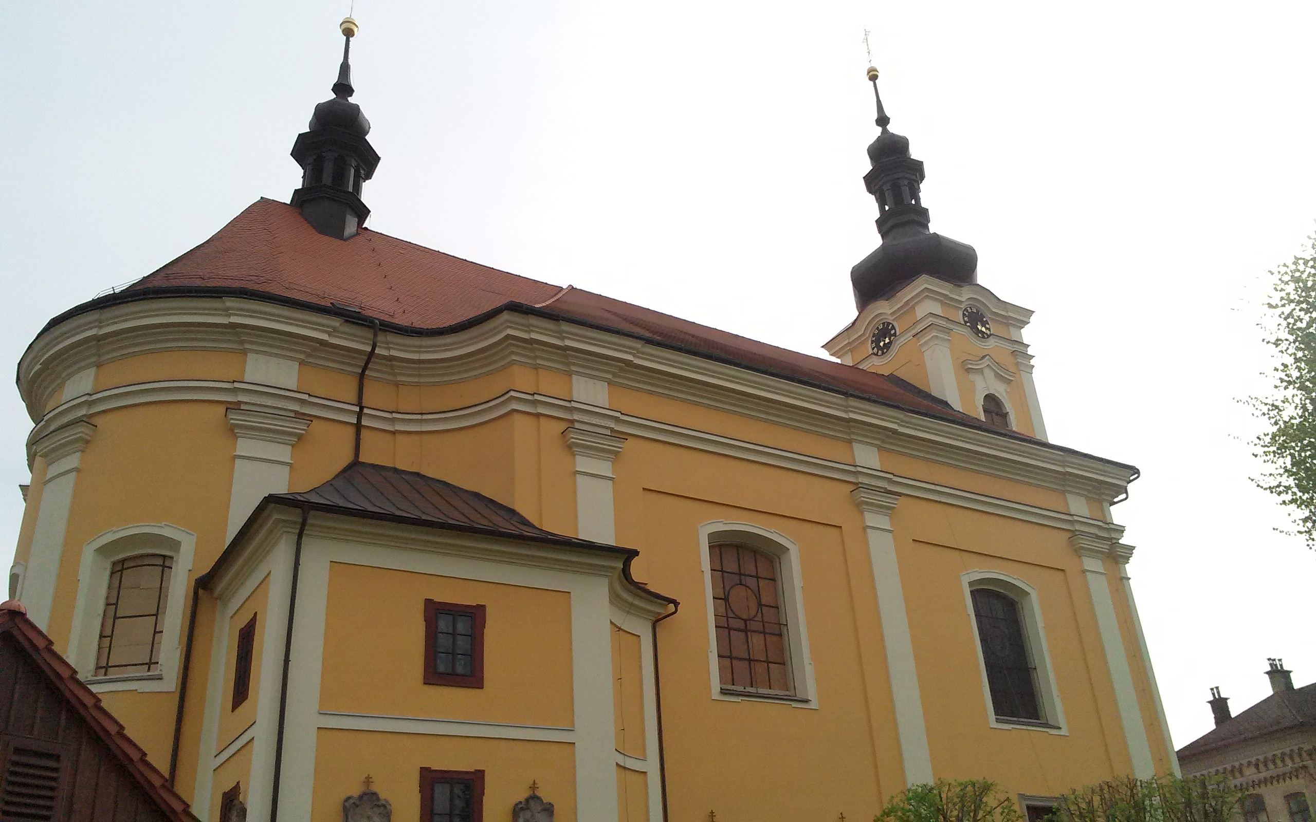 Church of St. Bartholomew in Pecka (Jičín District)